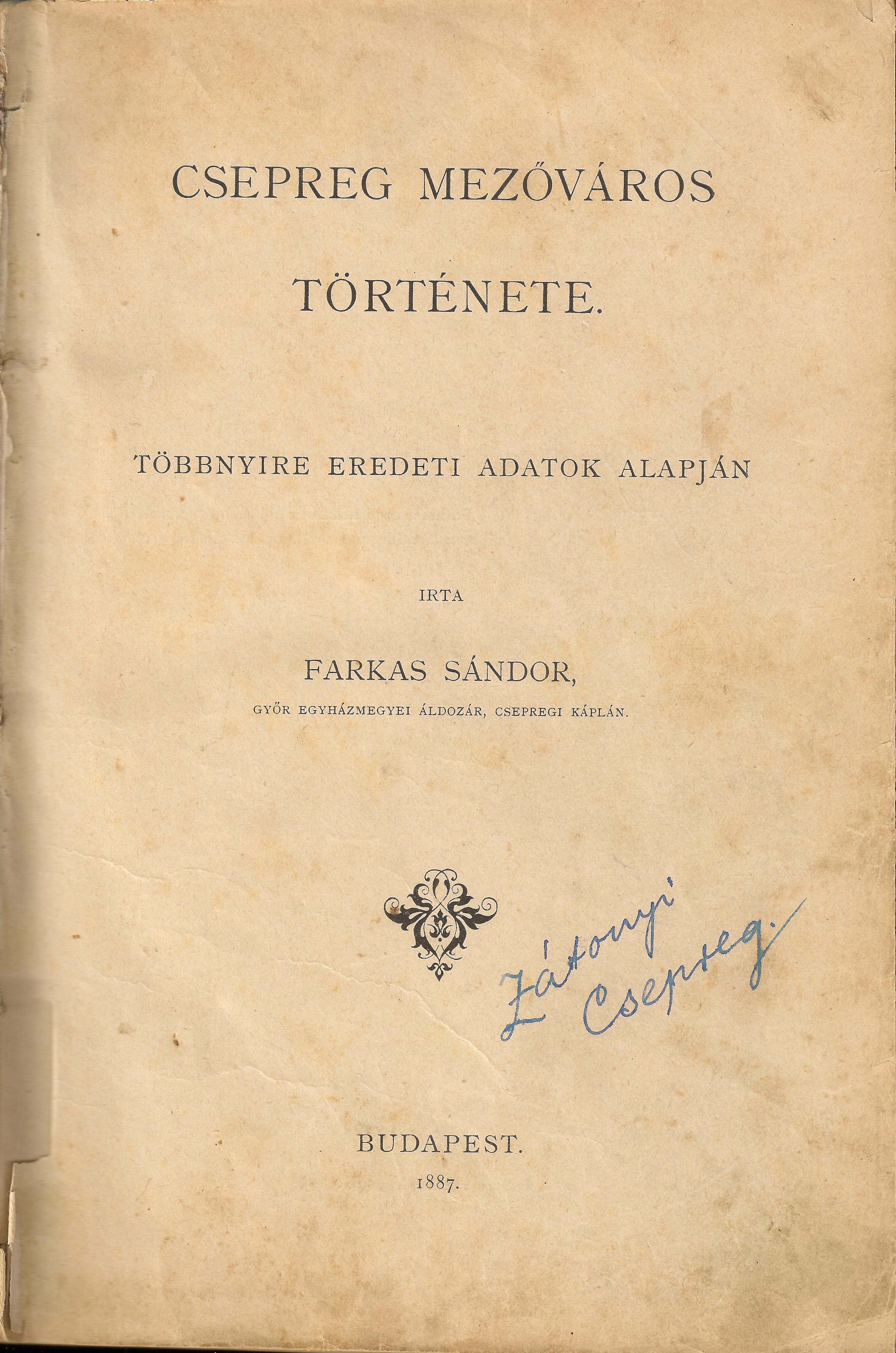 Farkas, Sándor (1853–1938): History of town Csepreg (front page of book, 1887).